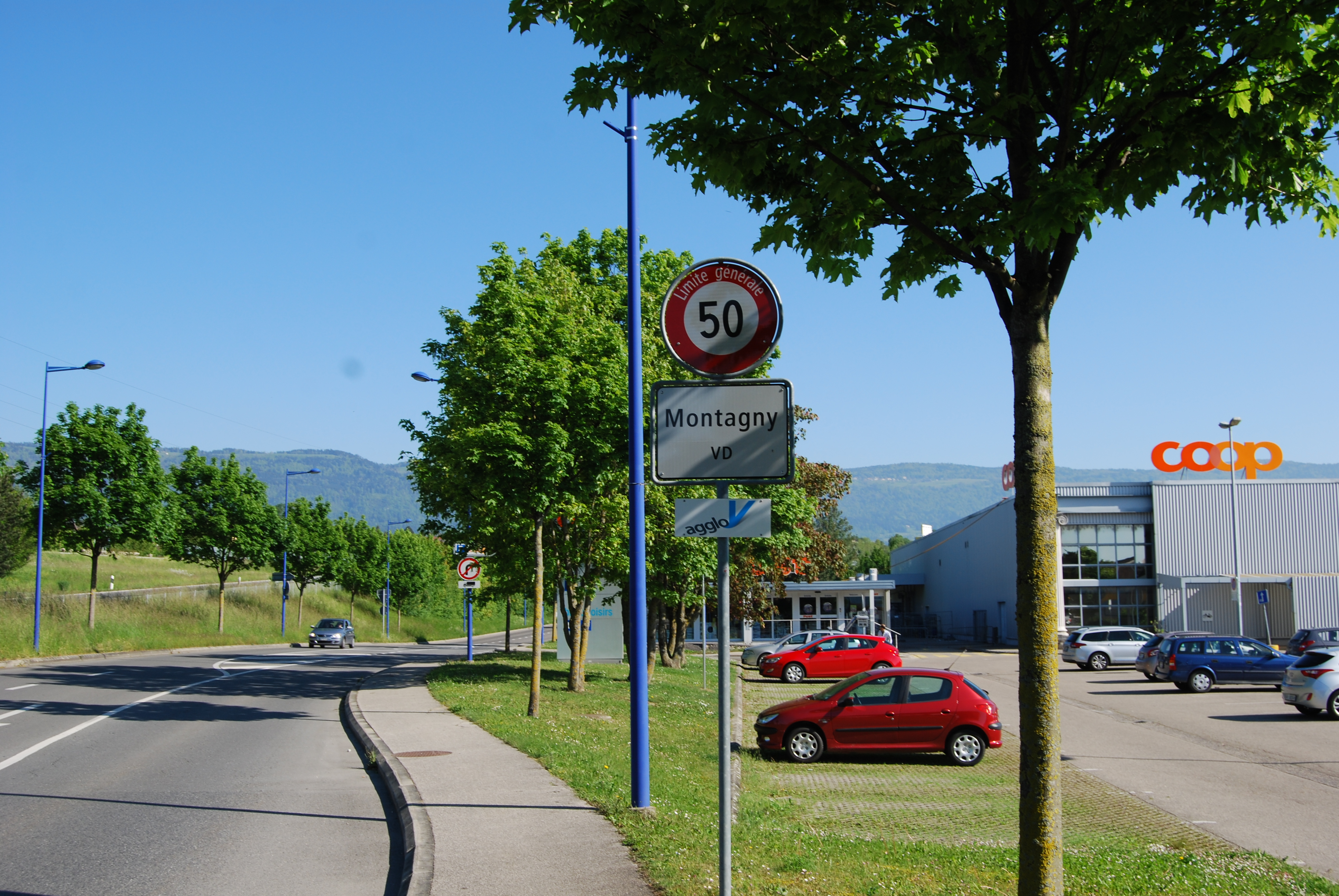 Montagny-près-Yverdon, canton of Vaud, SwitzerlandEsperanto: Montagny-près-Yverdon, Kantono Vaŭdo, Svislando